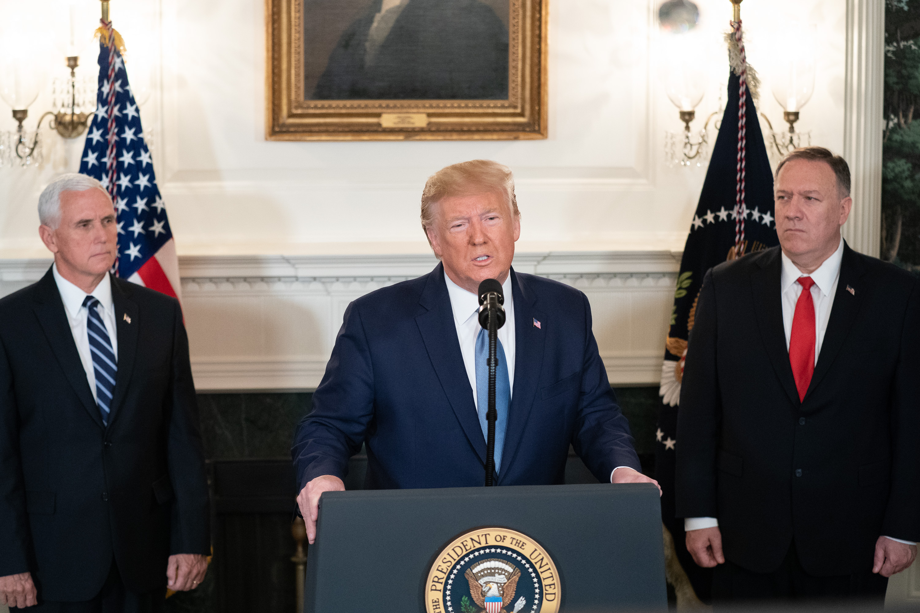 President Donald J. Trump, joined by Vice President Mike Pence, addresses his remarks Wednesday, Oct. 23, 2019, in the Diplomatic Reception Room of the White House. (Official White House Photo by Shealah Craighead)